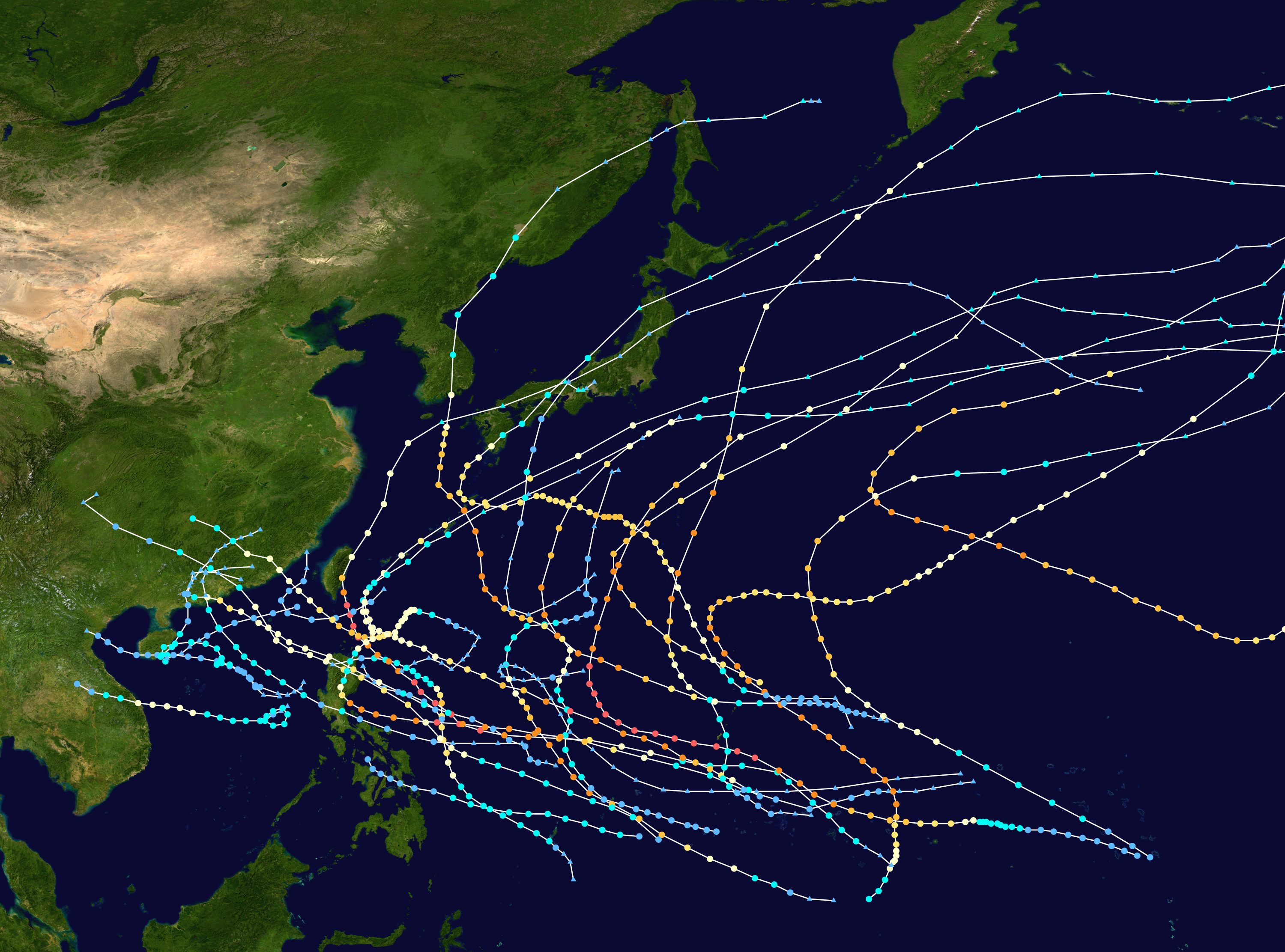 This map shows the tracks of all tropical cyclones in the 1957 Pacific typhoon season. The points show the location of each storm at 6-hour intervals. The colour represents the storm's maximum sustained wind speeds as classified in the Saffir-Simpson Hurricane Scale (see below), and the shape of the data points represent the nature of the storm. Saffir–Simpson hurricane wind scale Tropical depression≤38 mph≤62 km/h Category 3111–129 mph178–208 km/h Tropical storm39–73 mph63–118 km/h Category 4130–156 mph209–251 km/h Category 174–95 mph119–153 km/h Category 5≥157 mph≥252 km/h Category 296–110 mph154–177 km/h Unknown Storm typeTropical cycloneSubtropical cycloneExtratropical cyclone / Remnant low / Tropical disturbance